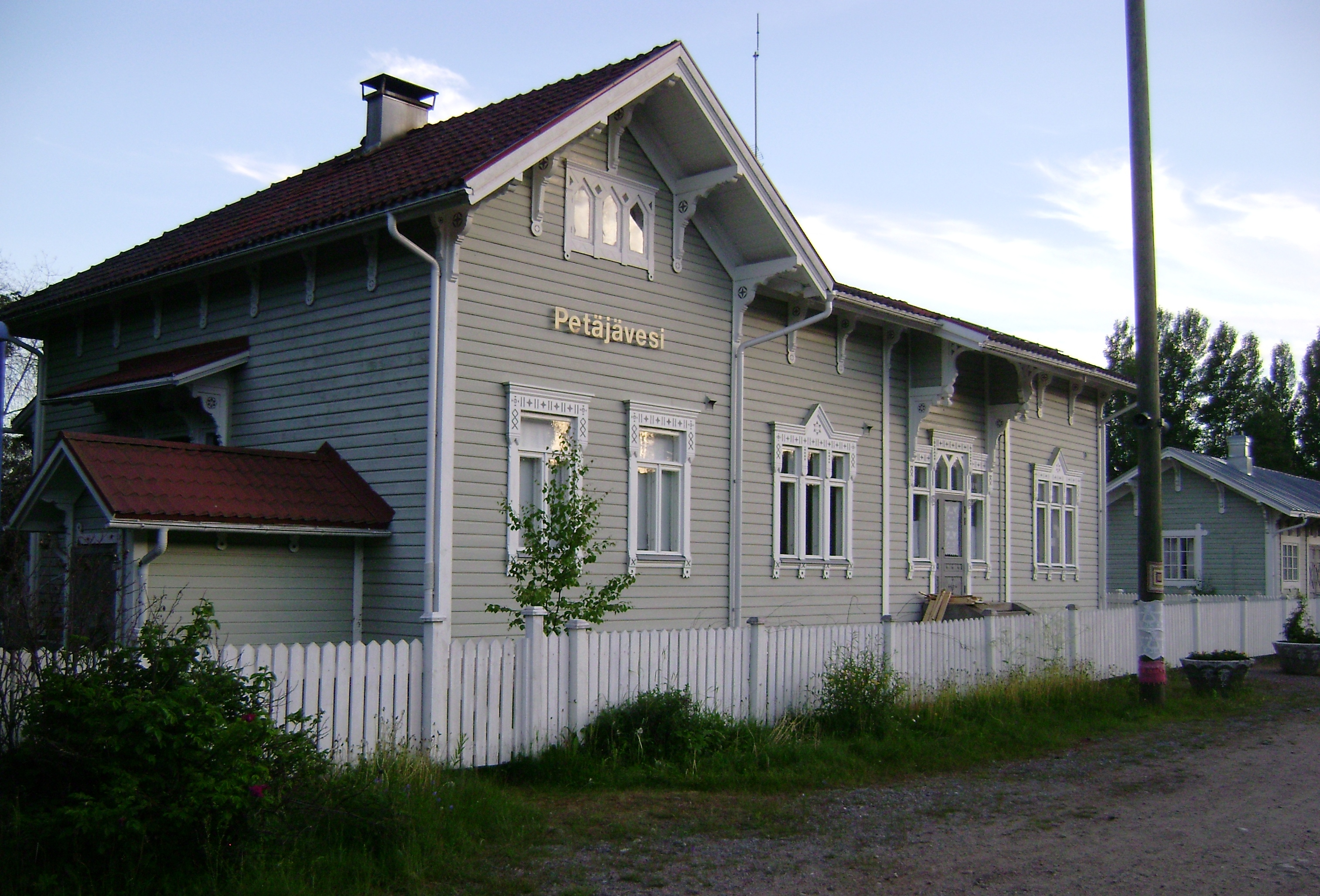 Petäjävesi railway station.